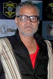 Sanjay mishra